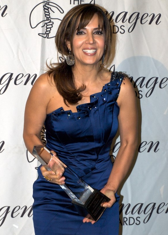 Actress Maria Canals-Barrera at the 2010 Imagen Foundation Awards.